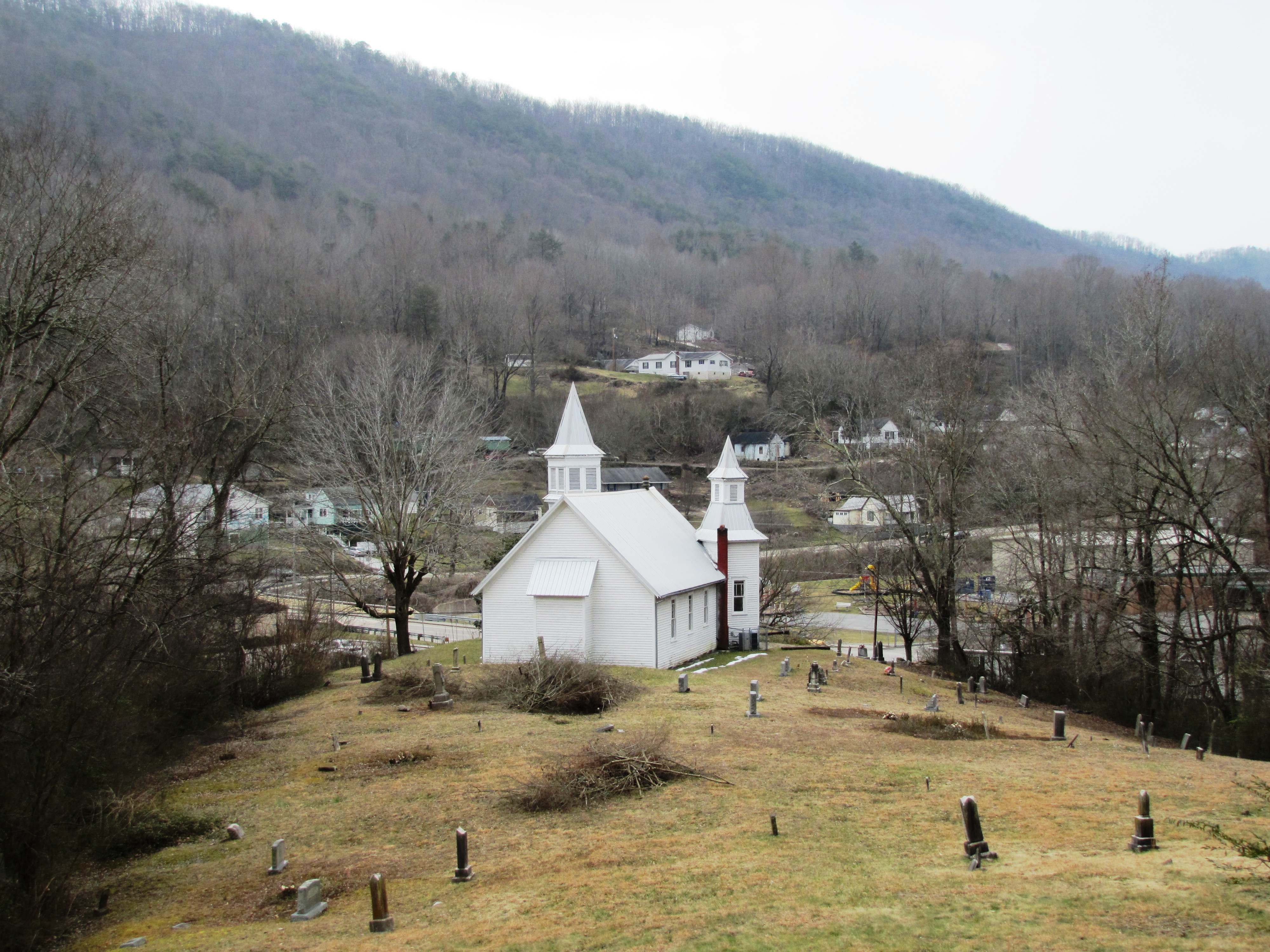 The Briceville Community Church and Cemetery, in Briceville — view east from the hillside, in East Tennessee. Walden Ridge spans the horizon.